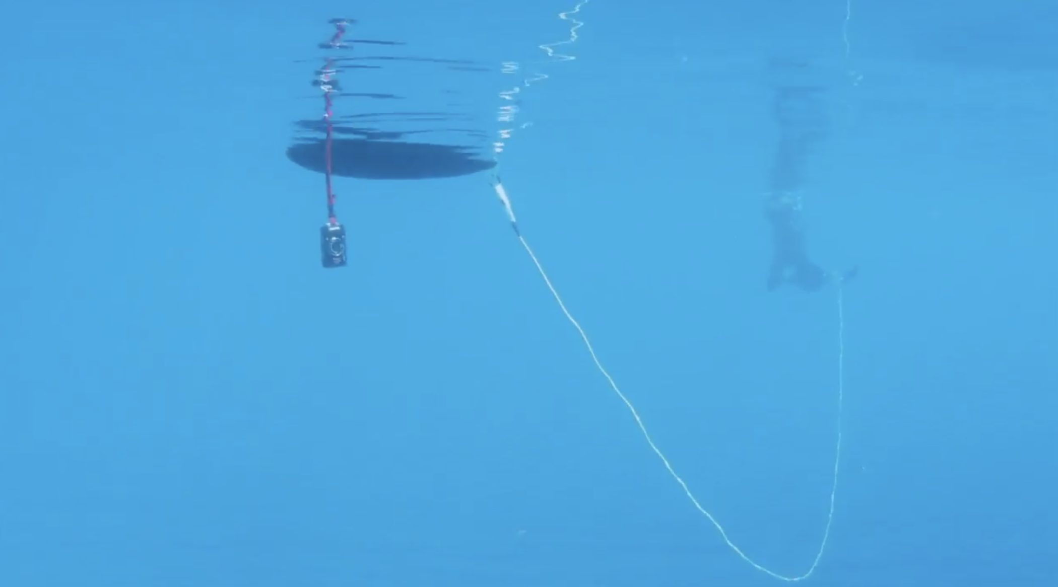 Sac étanche gonflable attaché à un seatrekker par un leash